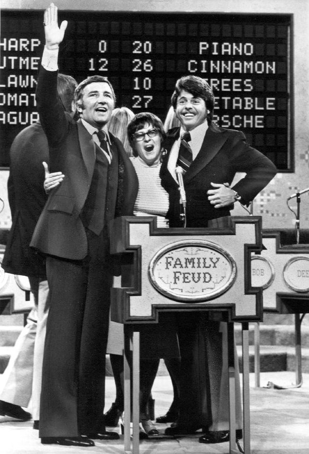 Photo of Richard Dawson and contestants from the television game show Family Feud.